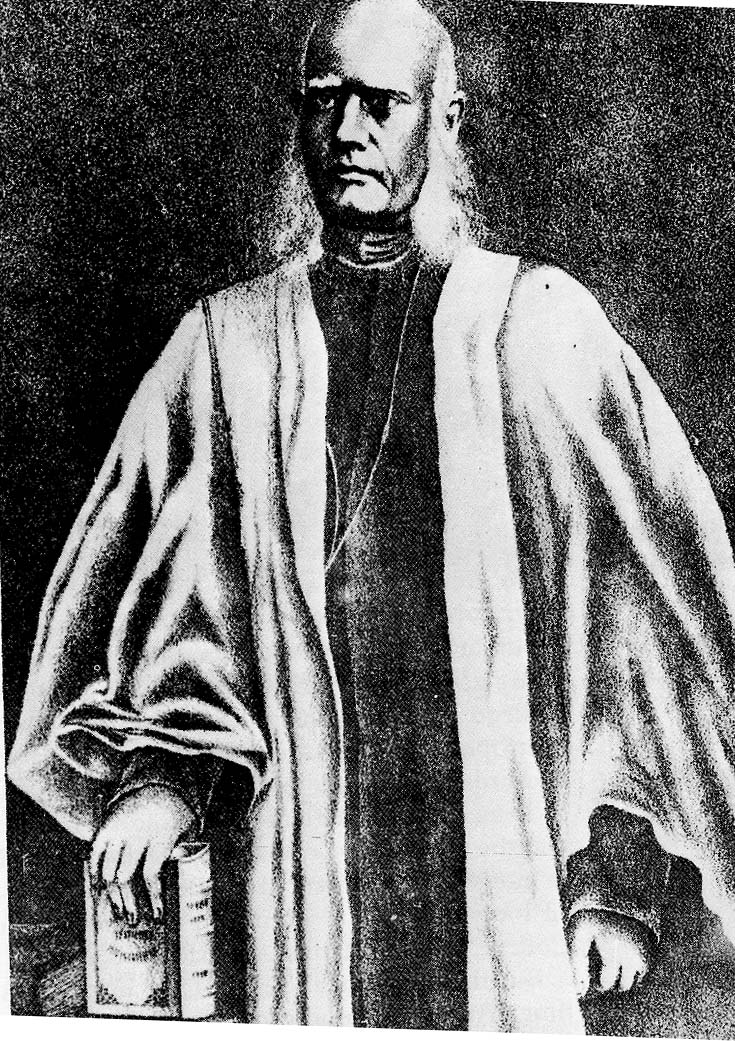 Lithograph from Shilpa Pushpanjali (1886), now in the National Library. Uncredited source.